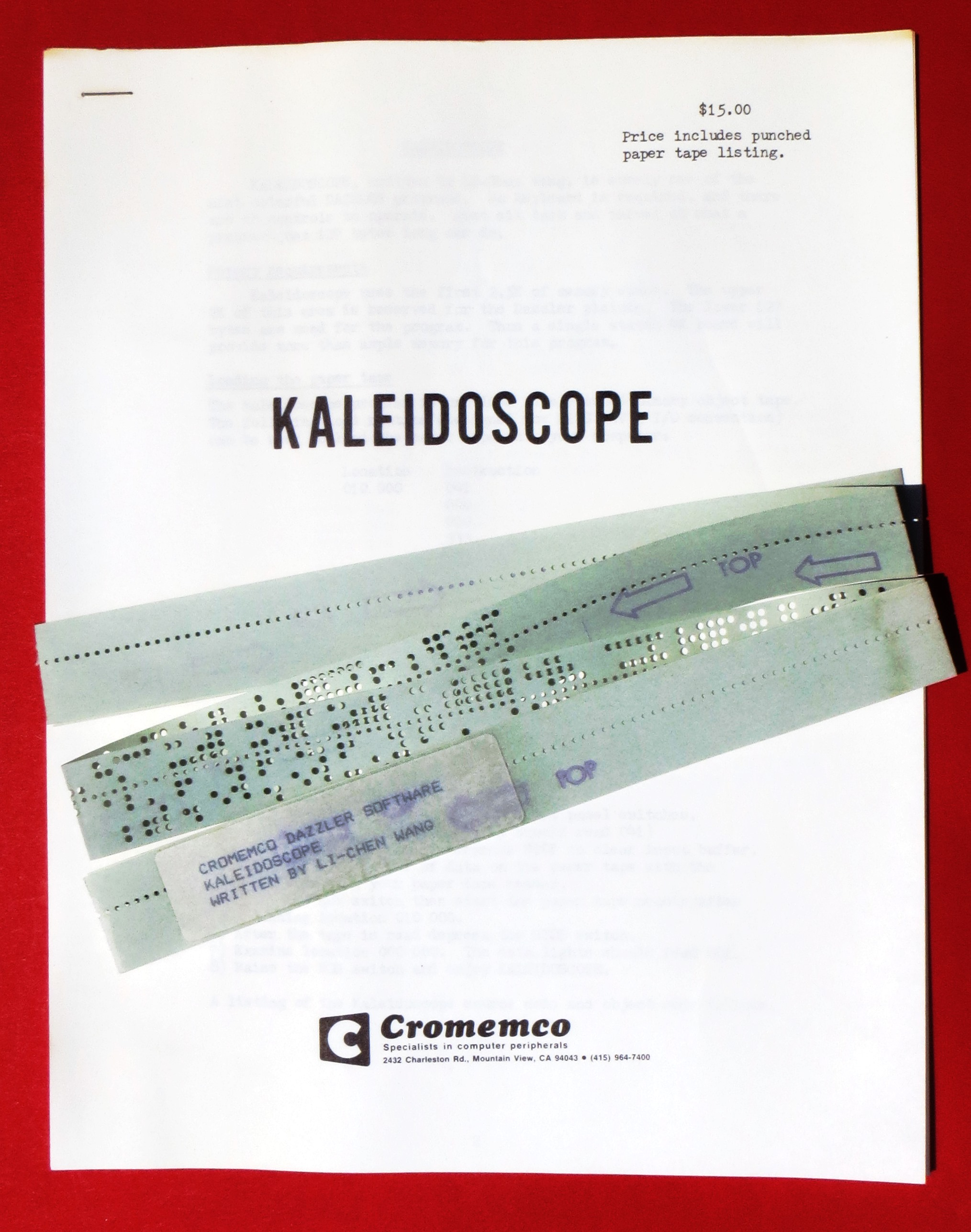 Kaleidoscope software for Cromemco Dazzler written by Li-Chen Wang and supplied on punched paper tape. This program was only 127 bytes long, but it stopped traffic on 5th Avenue in New York City when displayed in a store window.